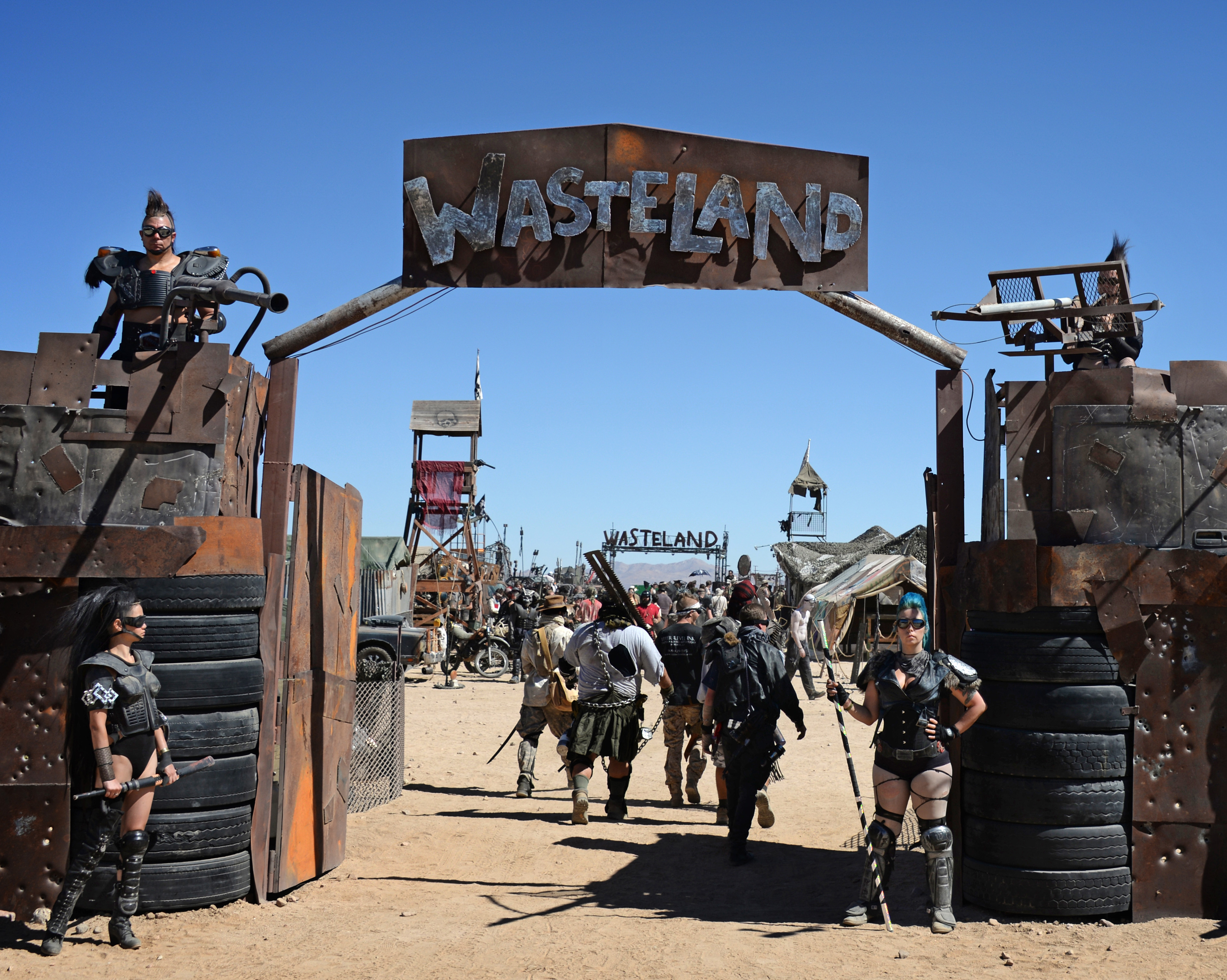 Wasteland Weekend Main Gate in California City, California on September 23, 2016 - Photo by Glenn Francis of